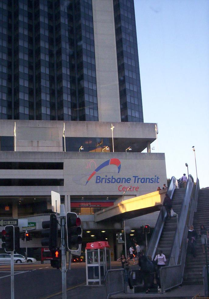 Brisbane Transit Centre and Holiday Inn ( this photograph was taken by Figaro )